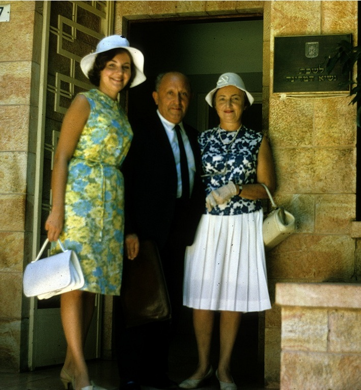 S. L. Shneiderman, his wife Eileen Szymin-Shneiderman and their daughter Helen Sarid entering the Israeli president's office, 1960s